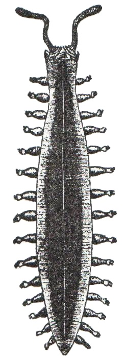 Perip`atus, an interesting animal connecting worms and insects. About 20 species are known, inhabiting South Africa, Australia, New Zealand, South America and the West Indies. They have a long body like a worm or caterpillar, but the segments or joints do not show on the outside. Internally however, they are well-marked. There is no division into thorax and abdomen. The head bears antennæ and jaws. The body is provided with short jointed feet (14 to 24 pairs), like a thousand-legged worm. Like the myriapods, they are found under stones and in rotting wood, and feed on insects and the like. Their internal structure is noteworthy. They possess a pair of looped tubes in each segment of the body, like those of worms, and, in addition, have breathing tubes like those of insects and myriapods. Structural peculiarities of two different subkingdoms of animals unite in peripatus. It is a sort of generalized form bridging the gap between worms and myriapods, and the myriapods connect with the lowest insects. Peripatus is of much interest to zoologists as a survivor of a very ancient family of animals and as a link between the worms and arthropods.